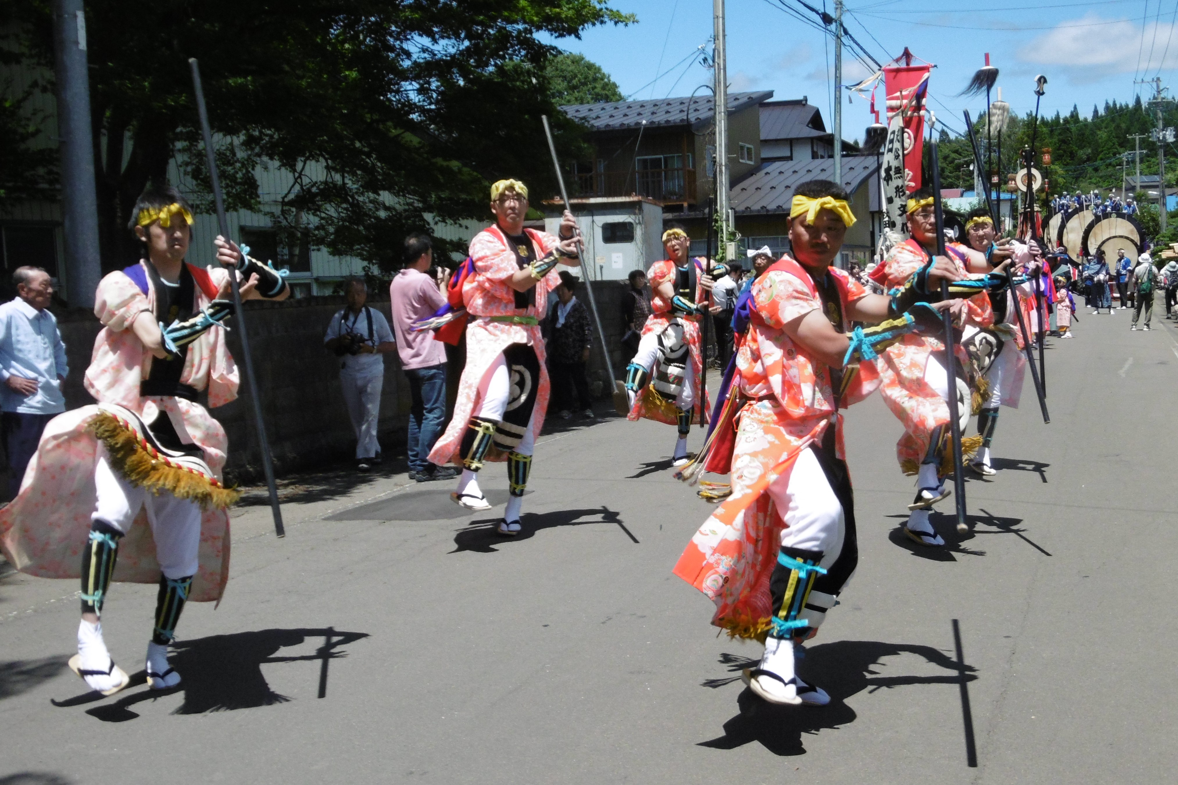 Tsuzureko shrine festival in Kitaakita City, Akita Prefecture, Japan